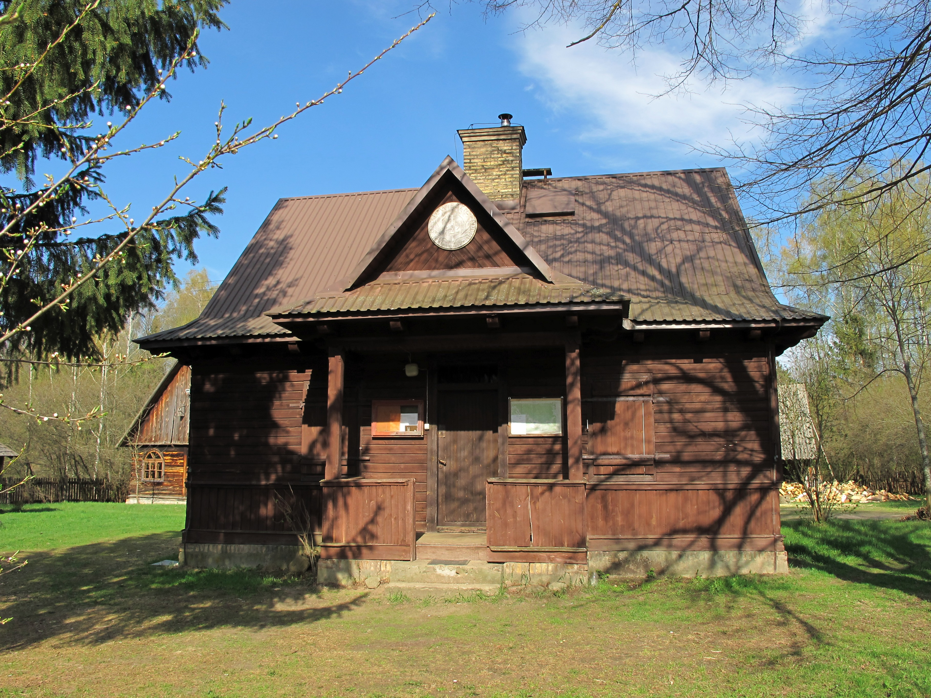 Forester's cottage „Wyżary”, gmina Gródek, podlaskie, Poland